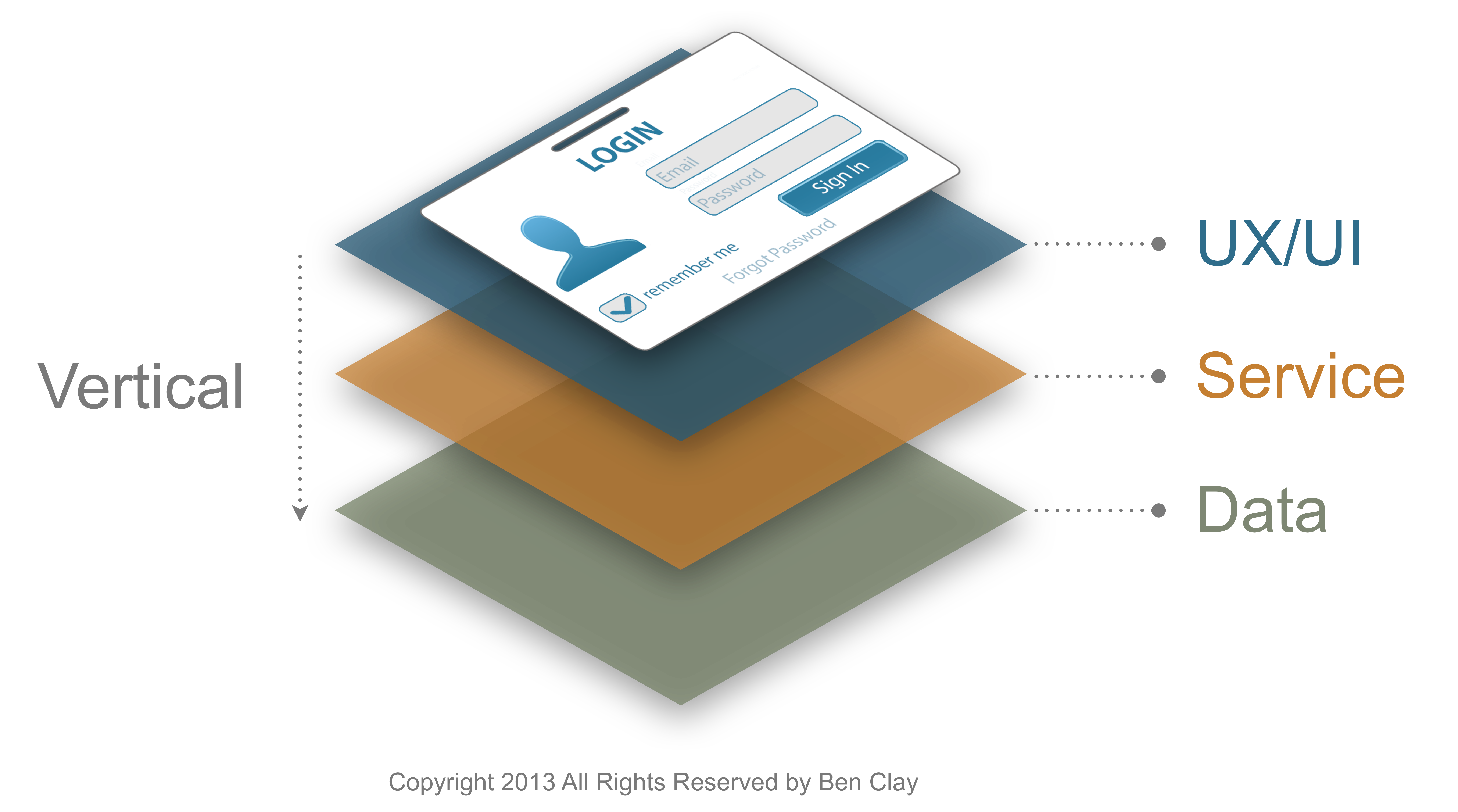 Begin to show how vertical slicing works